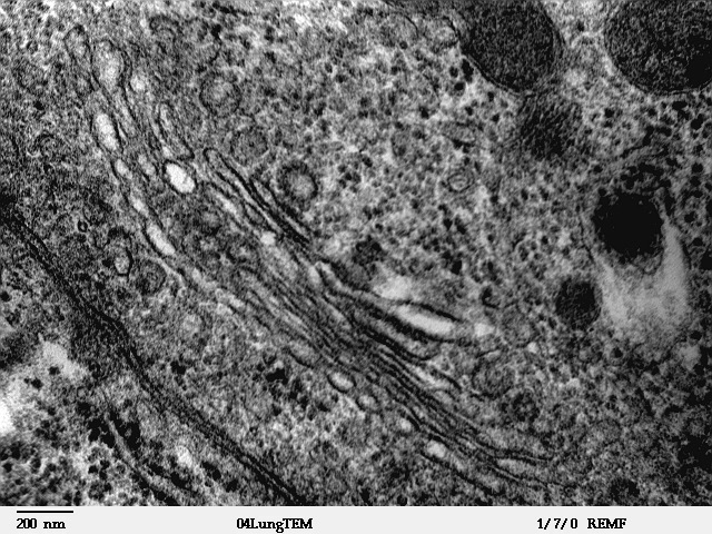 Transmission electron microscope image of thin section cut through an area of mammalian lung tissue. Image shows golgi in the cytoplasm of a macrophage in the alveolus. Golgi is a structure involved in protein transport in the cytoplasm of the cell. JEOL 100CX TEM